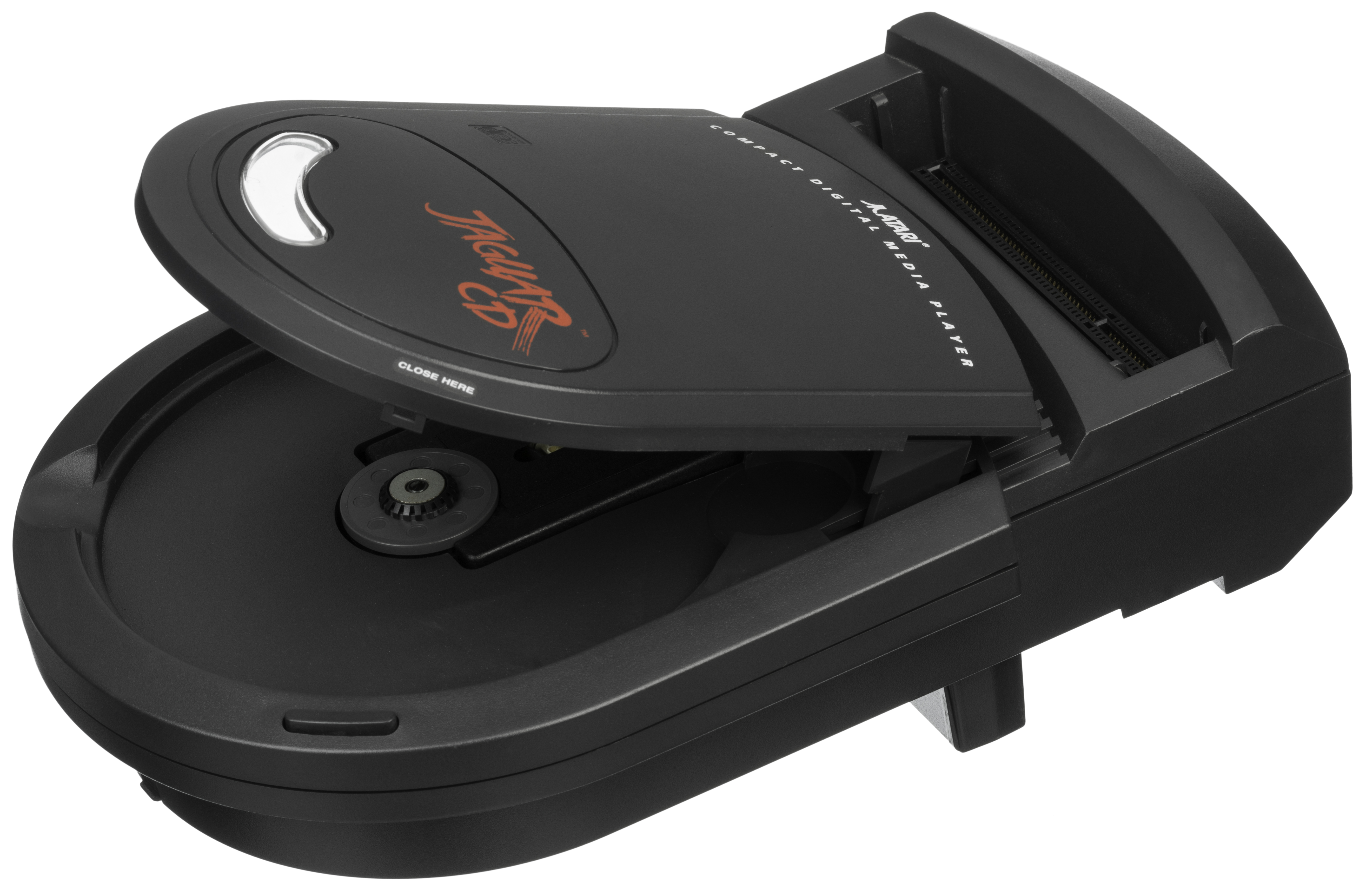 The Atari Jaguar CD, an add-on for the 1993 Atari Jaguar home gaming console. The Jaguar CD was released in 1995 and is an add-on drive that allowed the system to play music CDs or games from CD-ROMs. It attached to the top of the console, plugging into the cartridge slot. It has a pass-through slot on the top for games cartridges or an optional Memory Track cart, which would allowed for game saving when playing CD-ROMs. The Jaguar CD required its own power supply and has a DC power port on the back of the unit.